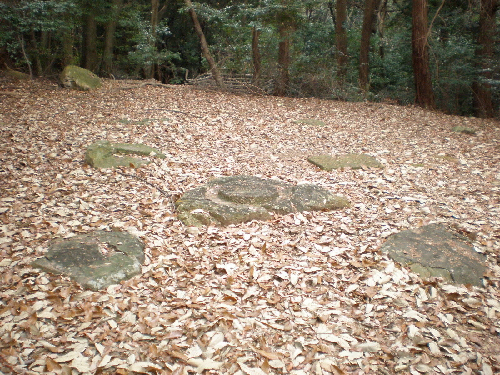 Ruins of a temple of Ohyama in Komaki, Aichi Pref